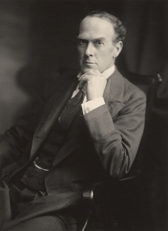 Portrait of Alfred Lyttelton, statesman